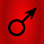 Astrological simbol of mars. Own work